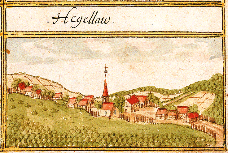 View of Hegenlohe, Lichtenwald, from the forest register books created by Andreas Kieser